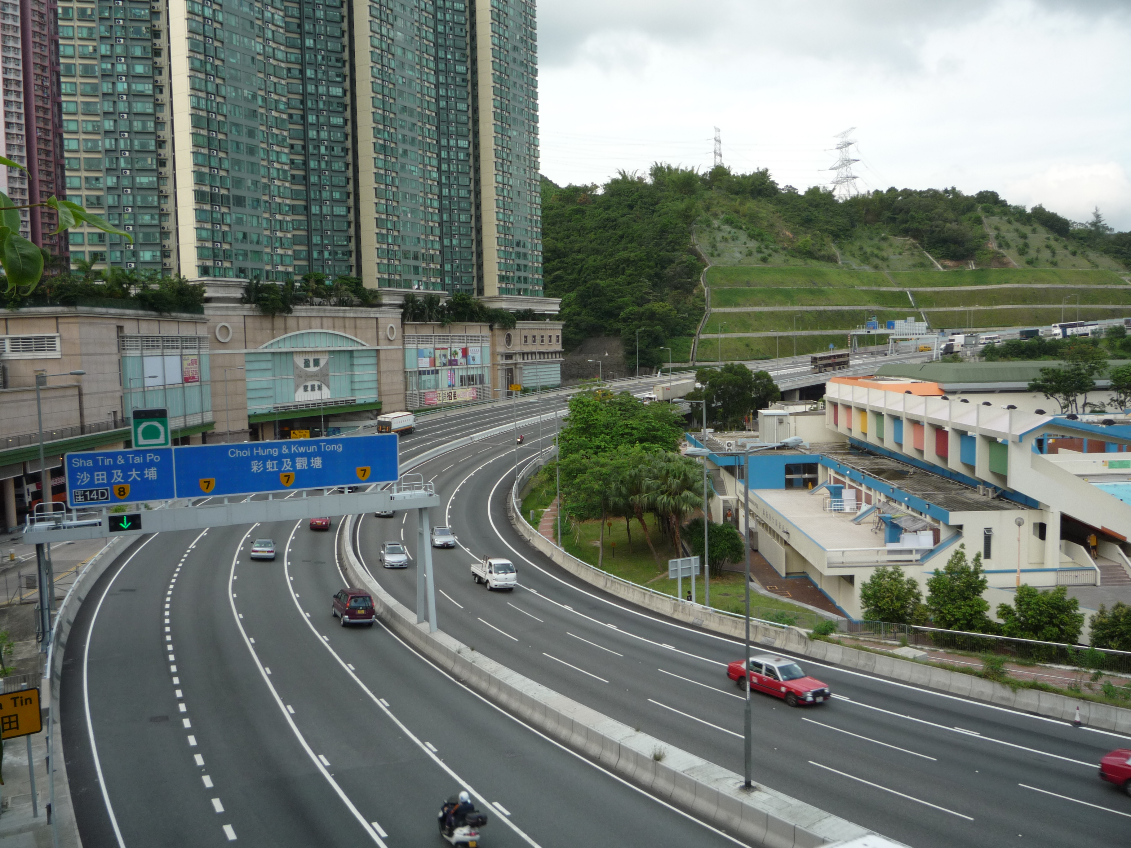 Ching Cheung Road (near Lak Chi Kok Nob Hill)